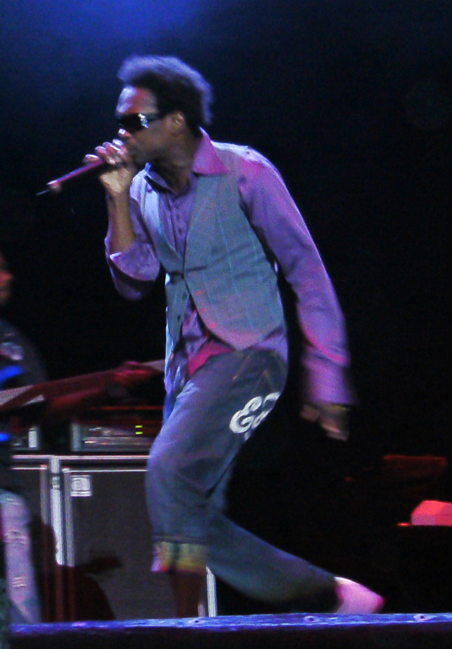 Busy Signal live at Chiemsee Reggae Summer 2009